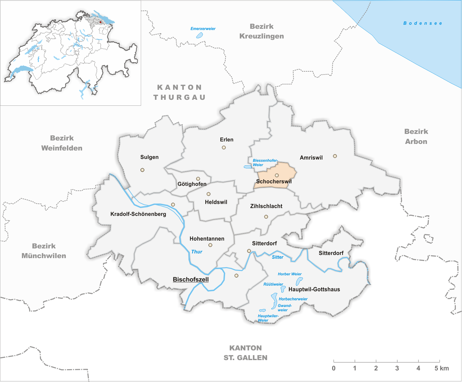 Municipality Schocherswil